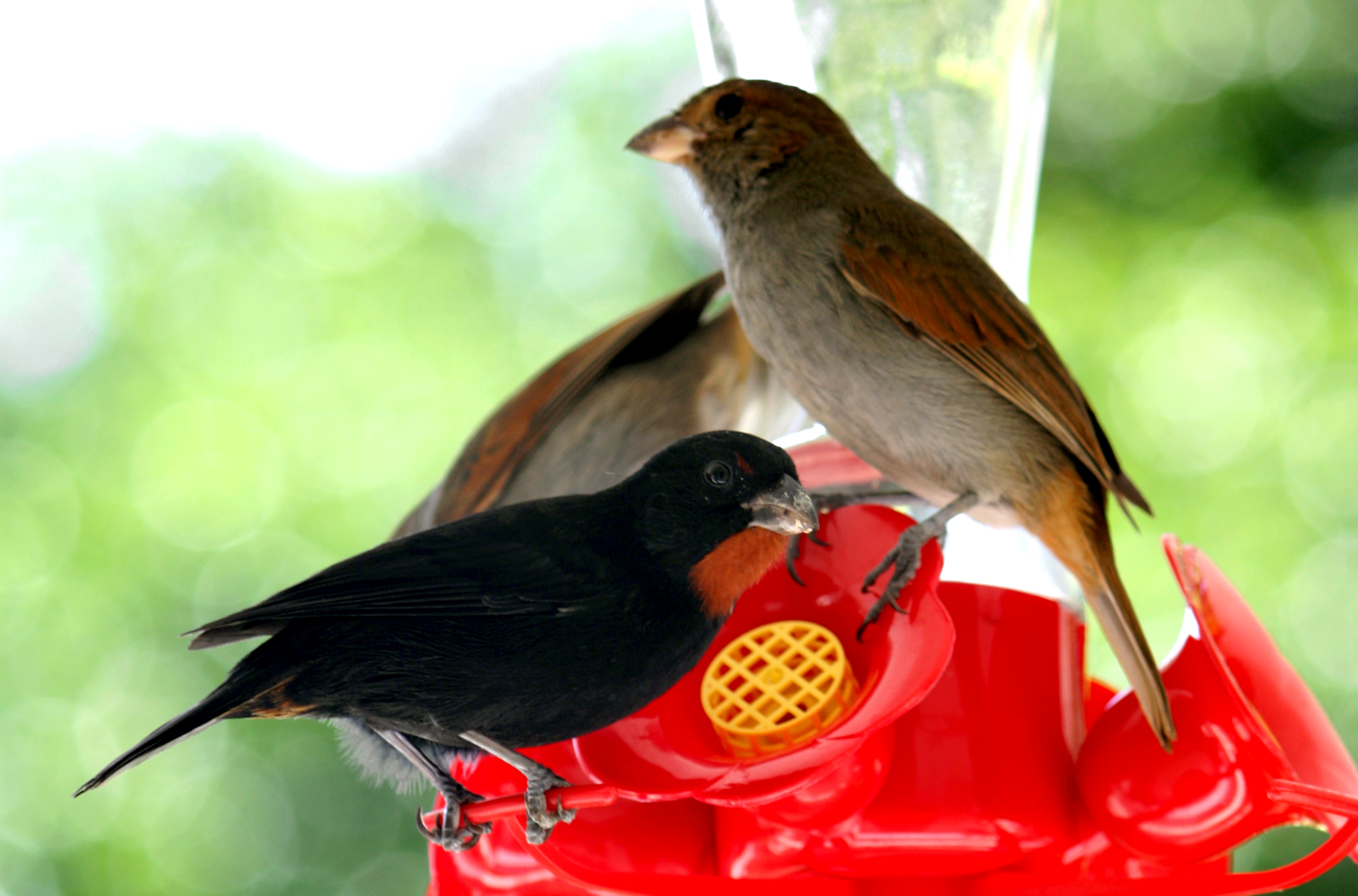 Male Lesser Antillean Bullfinch (Loxigilla noctis) with two females, perched on a bird feeder in Coulibistrie, Dominica.